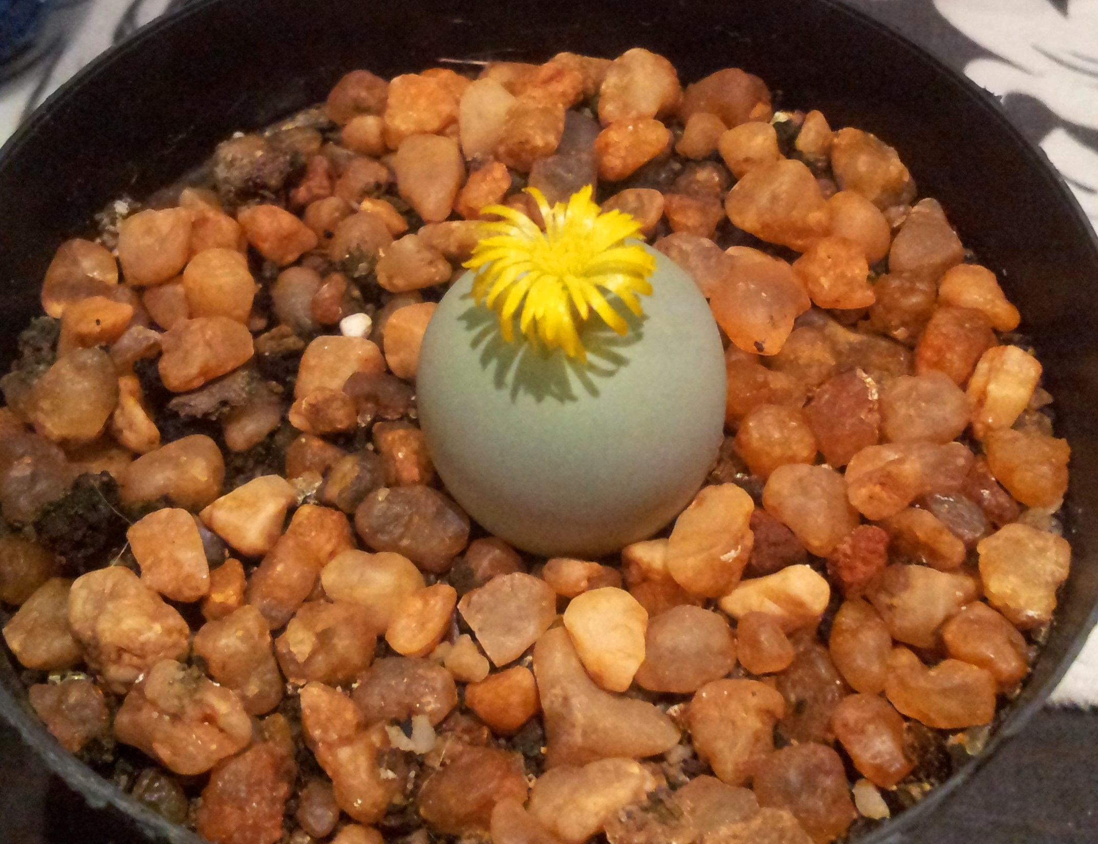 Conophytum calculus - succulent plant from South Africa. Knersvlakte and Namaqualand.